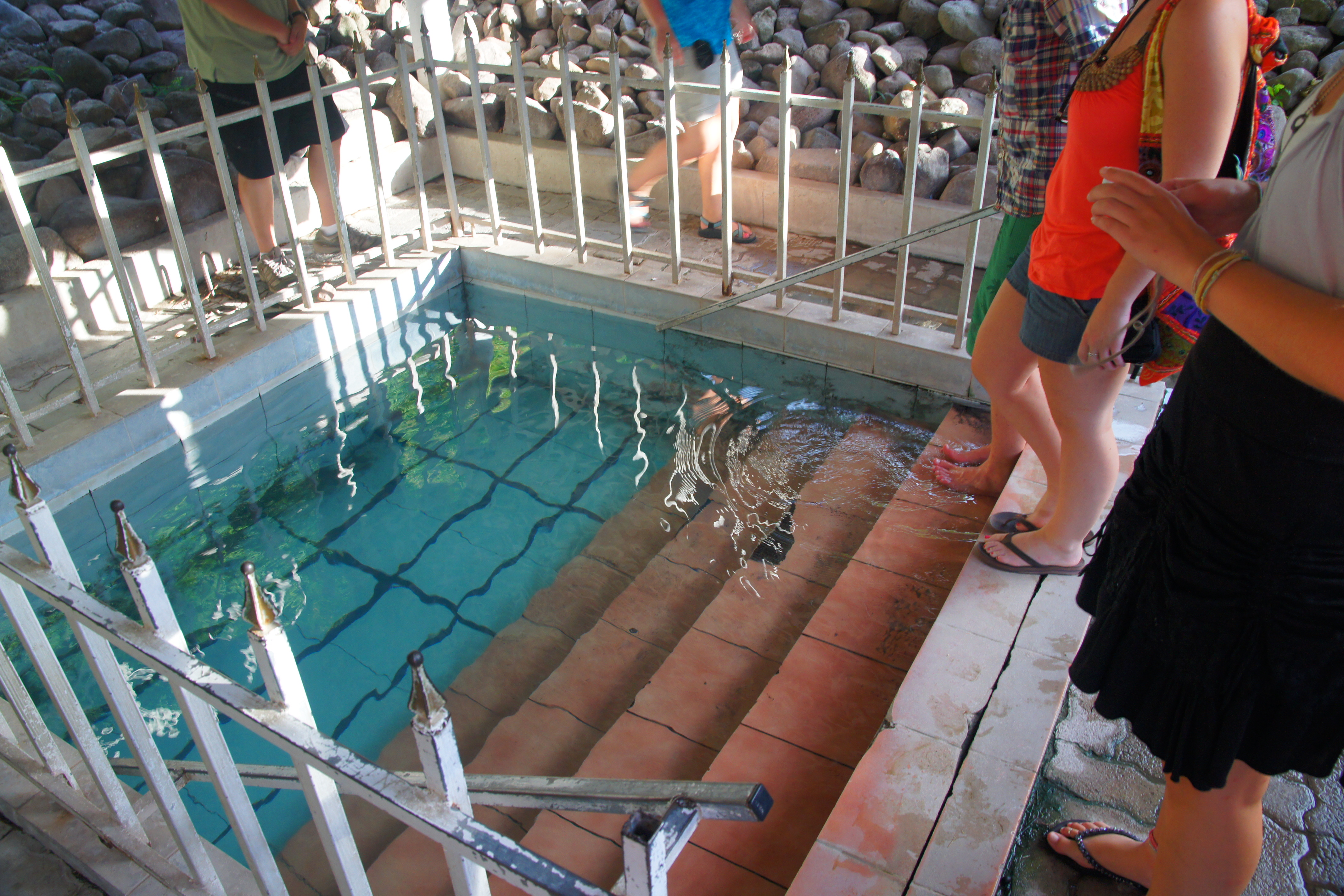 Pool of hot water on the island of Nevis resulting from geothermal activity. The island is a member of the country St. Kitts and Nevis in the Lesser Antilles. The pool pictured is neighbored by hot spring water flowing naturally in a dirt depression. A sign above the pool reads: "Relaxing Pool - Use at your own risk, always be accompanied, do not use if you have a heart problem, maximum time recommended 15 min., not for children 12 yrs and under, soap must not be used - This pool was made possible with the kind contributions of E.J.E (Nevis), Margaret Huggins Burrall, Emile Newton (Golden Rock), Super Foods Supermarket, Nevis Island Government"